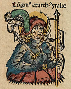 Woodcut from the Nuremberg Chronicle Longinus, Byzantine governor of Italy in 572